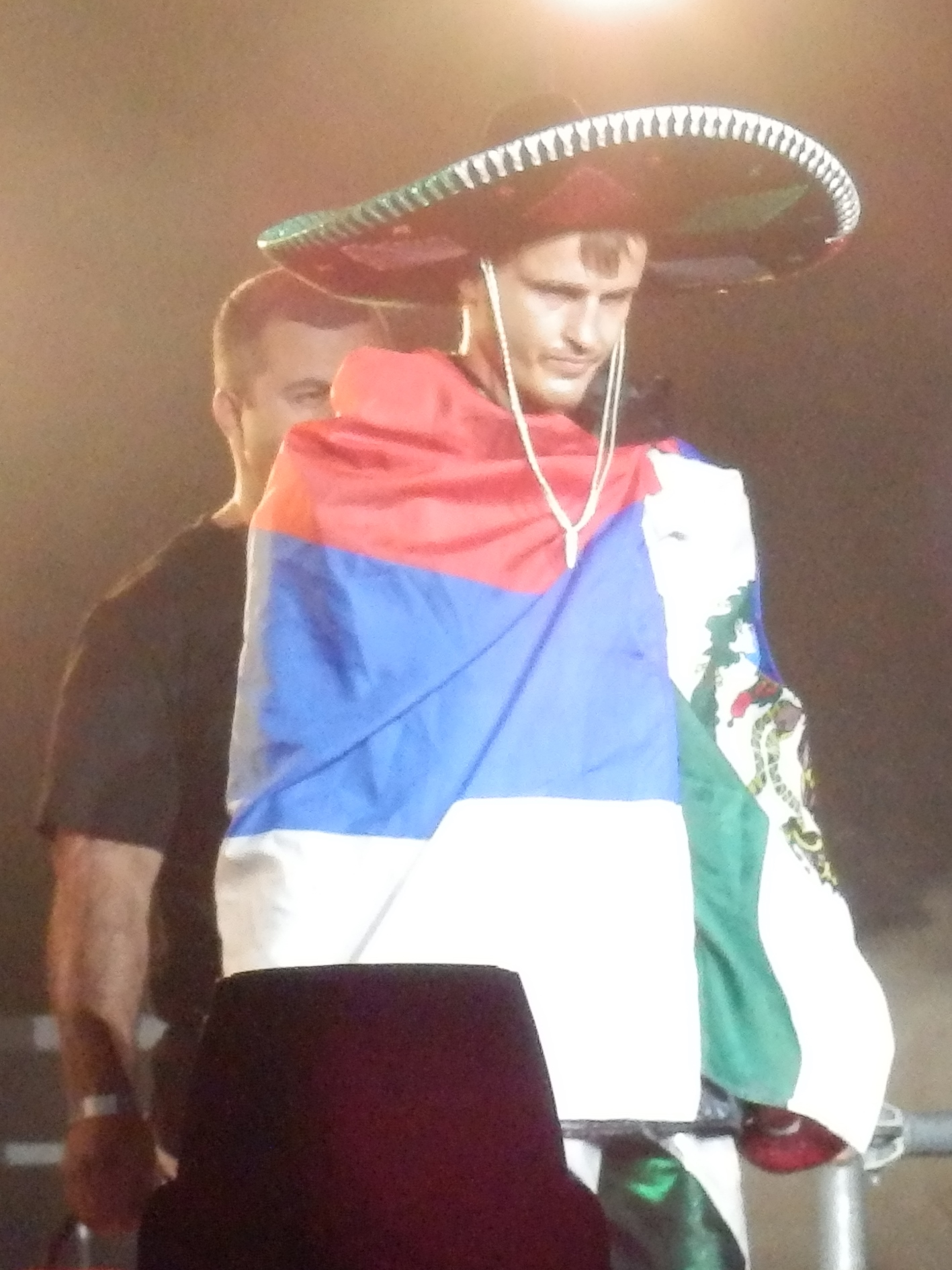 Evgeny Gradovich (boxer) in the tournament "Chelyabinsk-280" (Chelyabinsk, ice arena "Tractor", 09.09.2016)